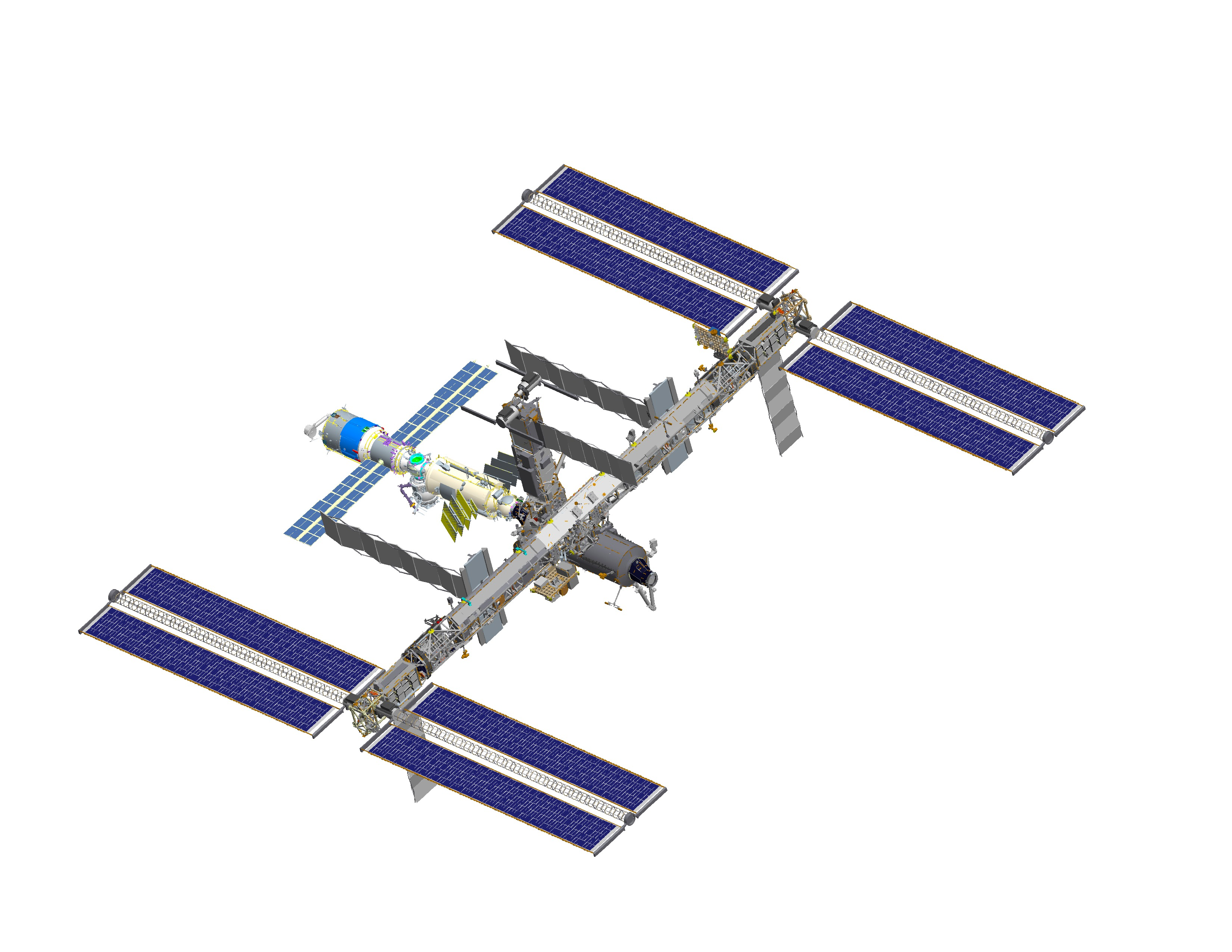 Computer-generated artist's rendering of the International Space Station after flight STS-118/13A.1.